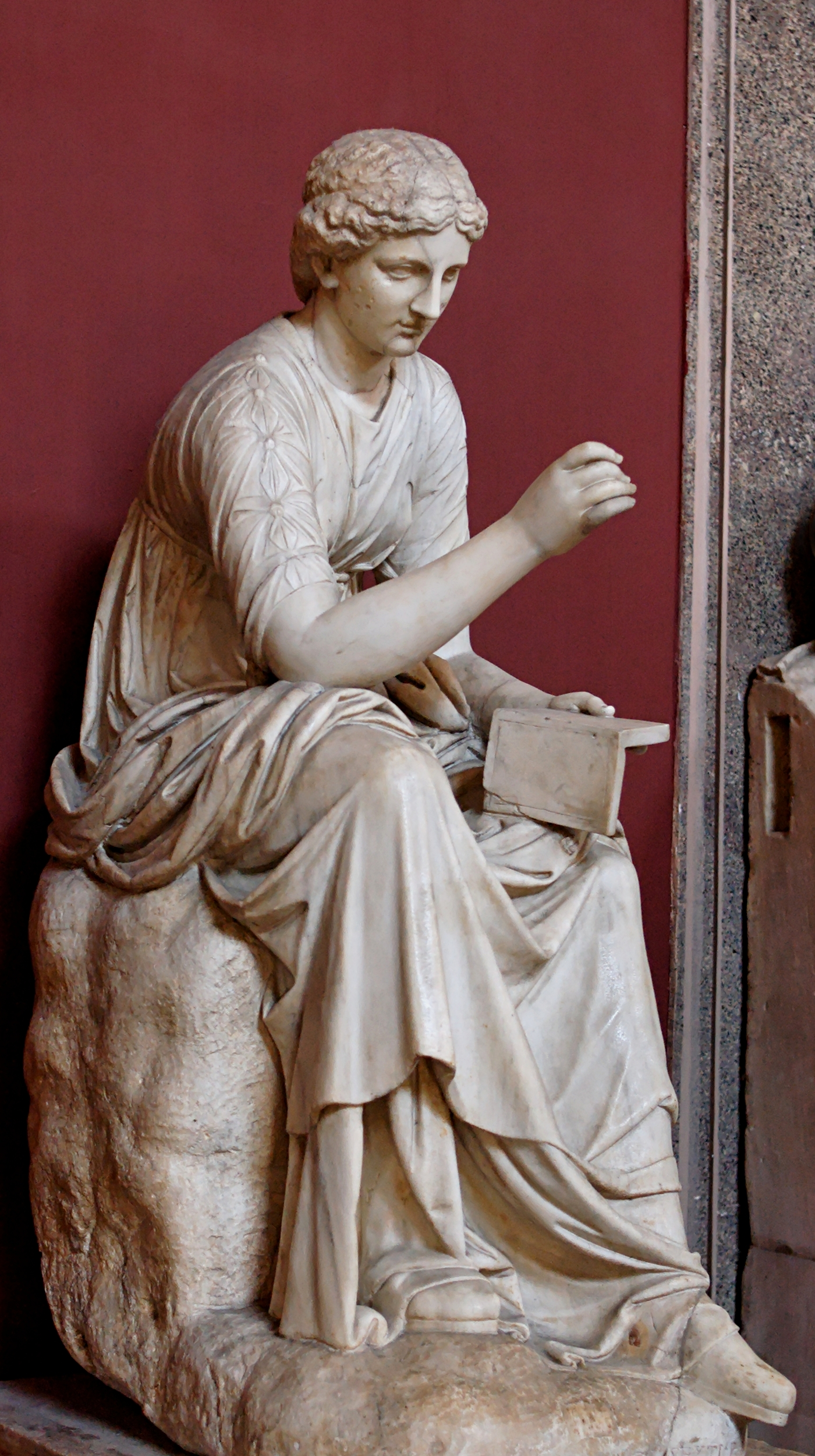 Calliope, Muse of elegy. Marble, Roman artwork from the 2nd century CE. The head is an idealistic portrait of the 1st century CE and does not belong to the statue. From the Villa of Cassius near Tivoli, 1774.